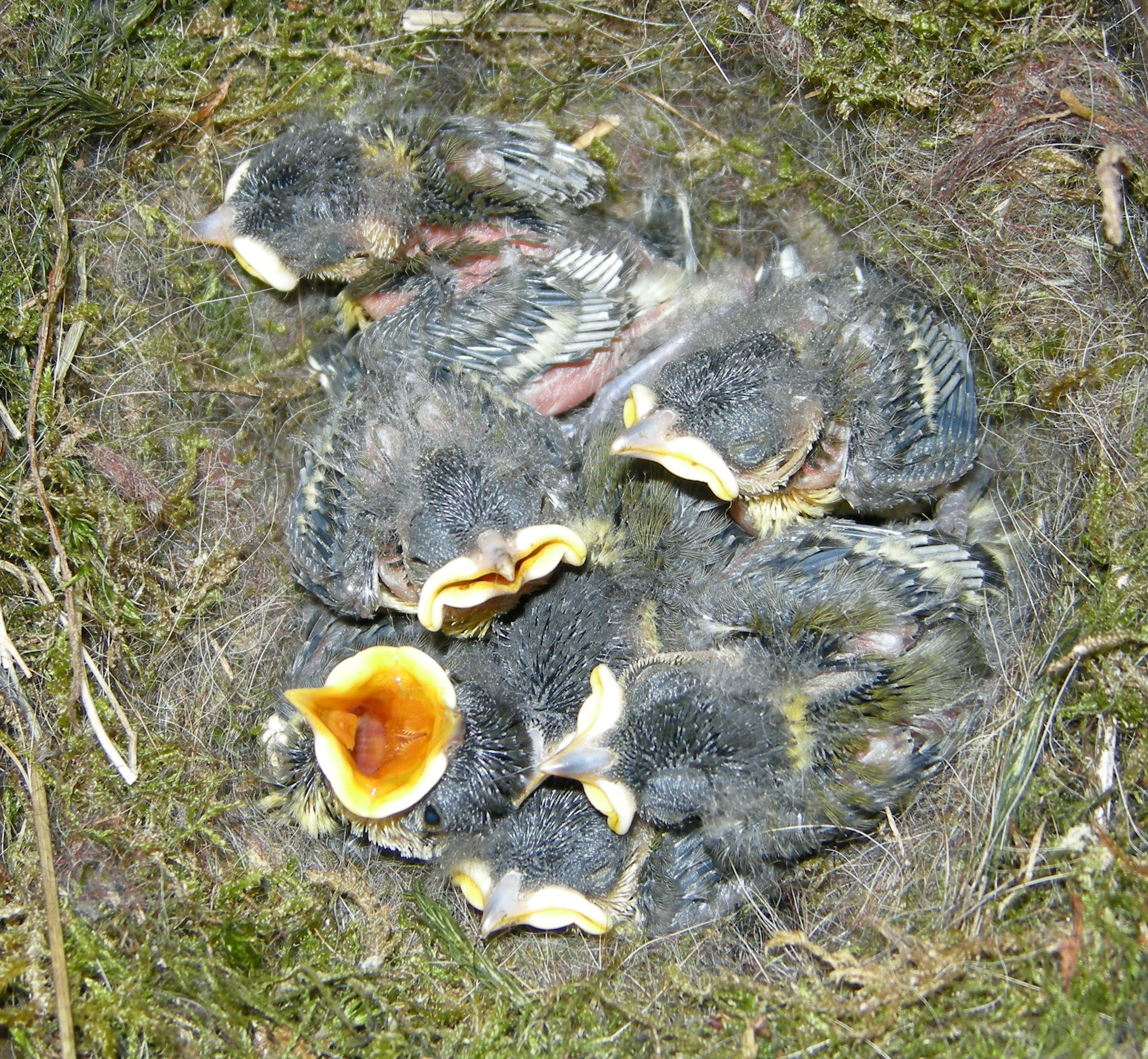 Children of Great Tit (Parus major)